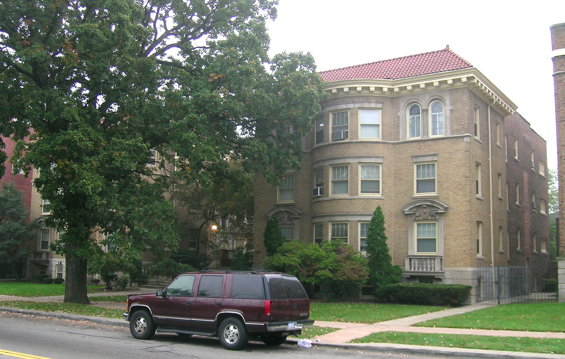 2003 McNichols in Palmer Park Apartment Buildings, Detroit MI